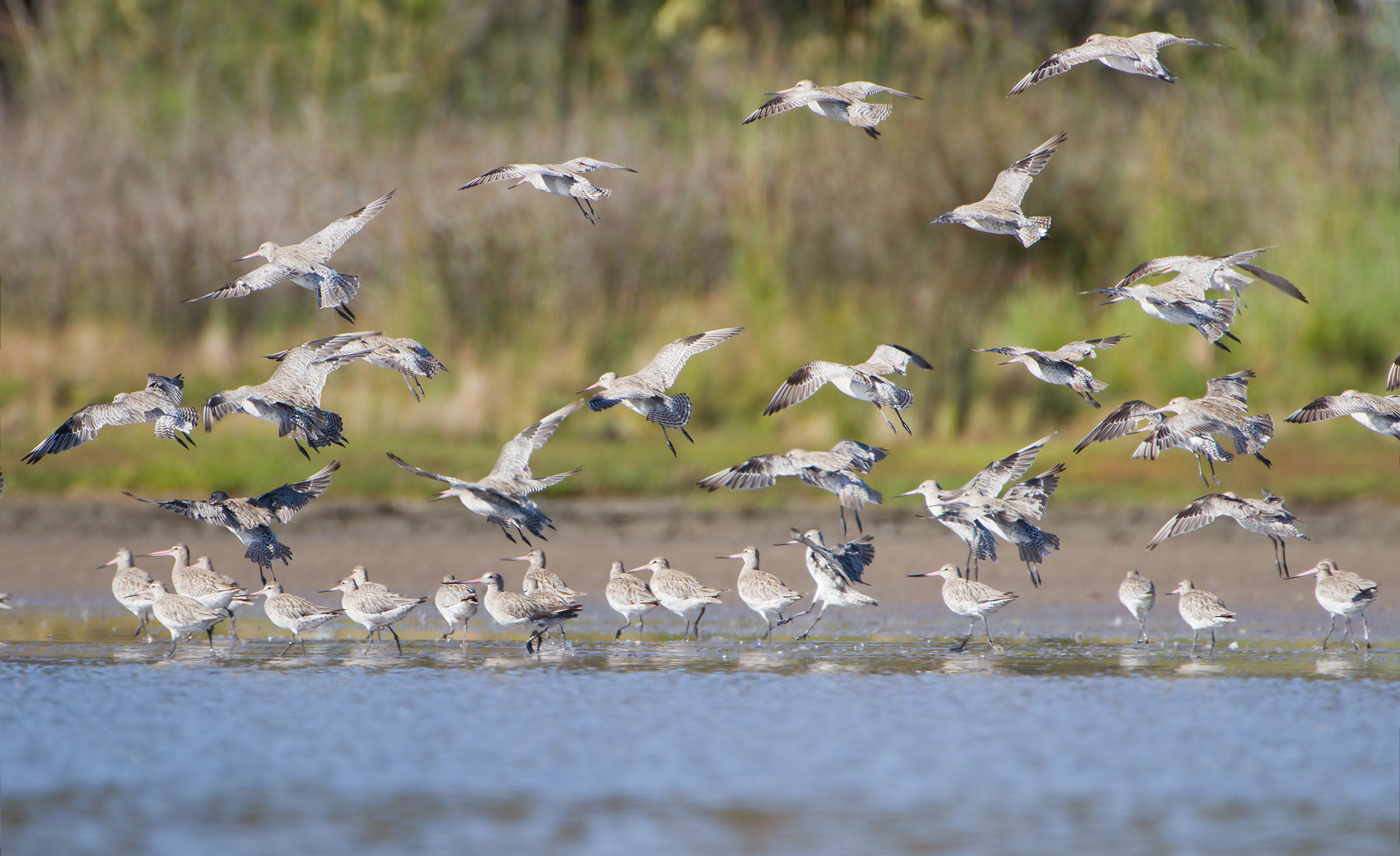 A flock of Bar-tailed Godwit landing (Limosa lapponica), Orielton Lagoon, Tasmania, Australia